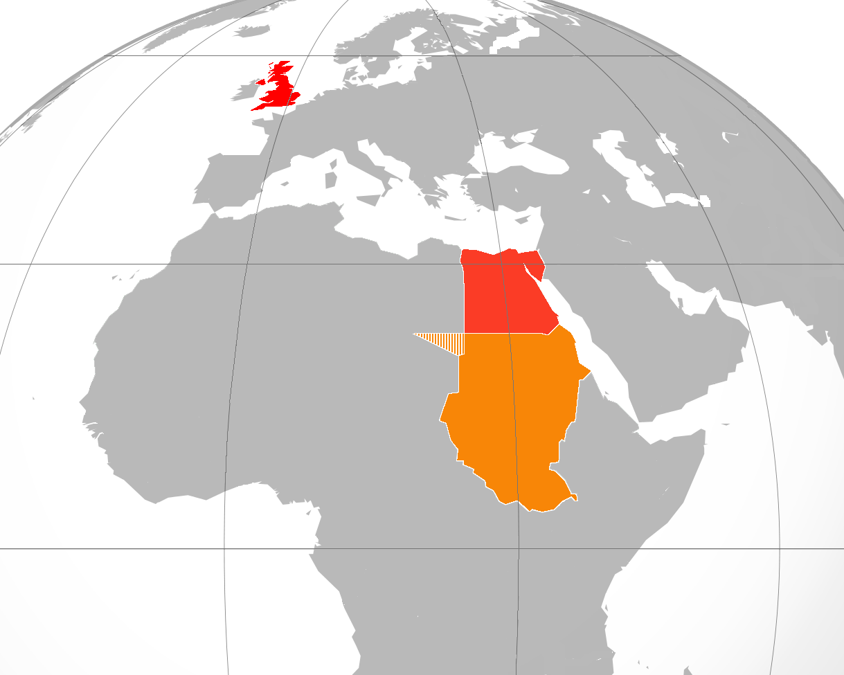 Map simplified by the hemisphere North, with the euro-African part, with Great Britain in lively red, Egypt in light red and English-Egyptian Sudan in orange. The part(party) of the Condominium given up in Libya in 1919 is hatched.